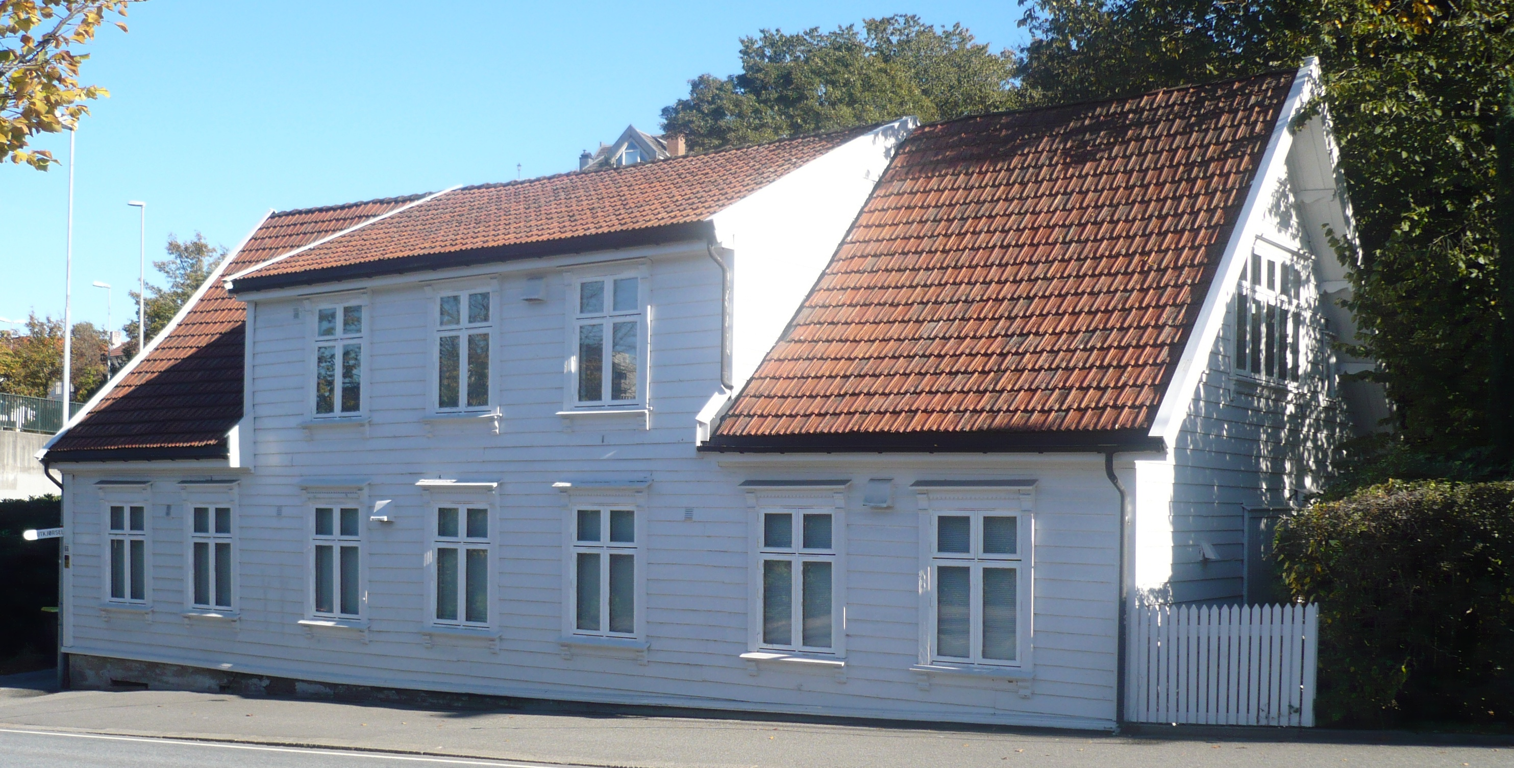 Kongsgata 34 in Stavanger Kongsgata 34 i Stavanger